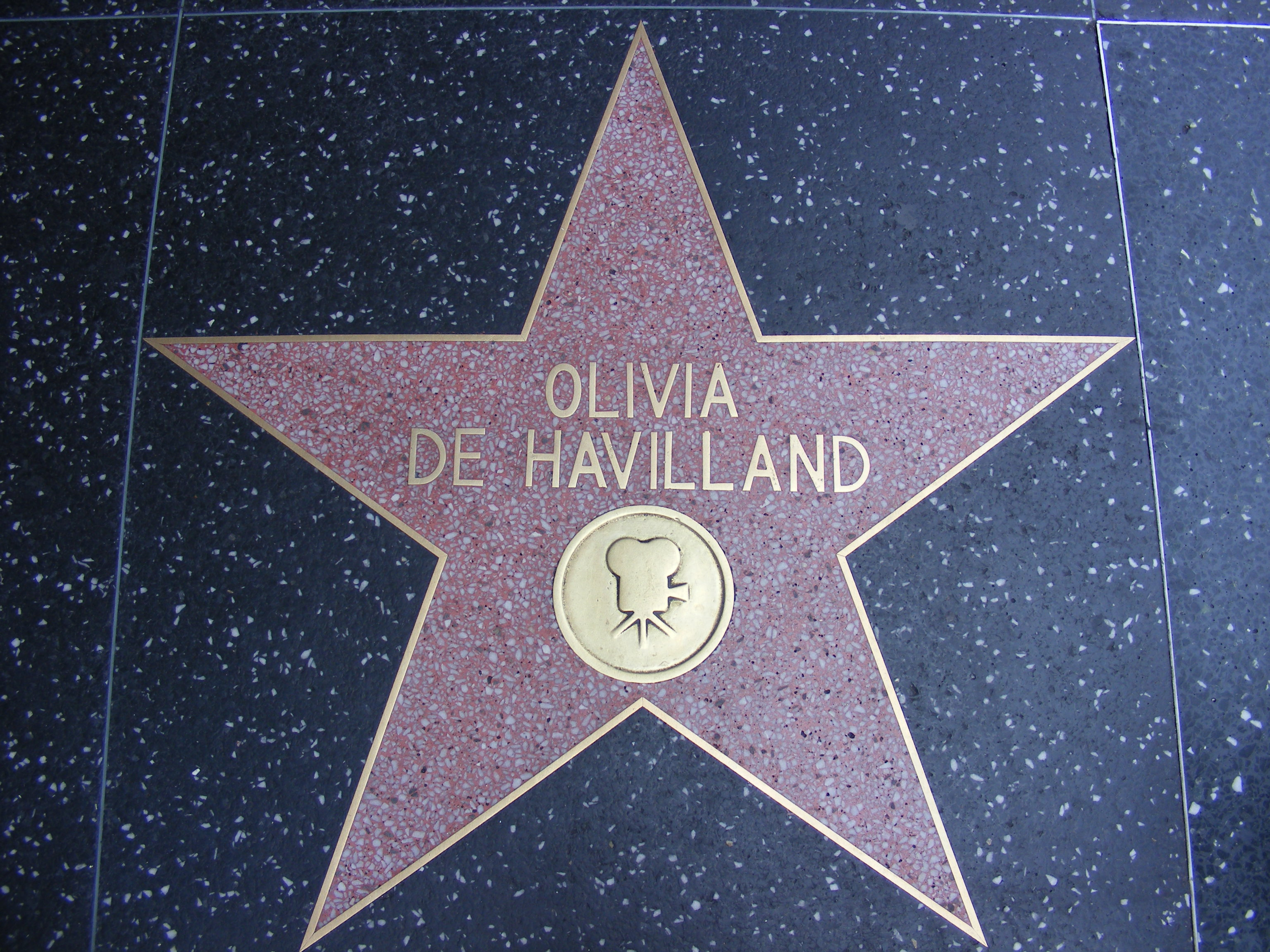 Olivia de Havilland's star on the Hollywood Walk of Fame at 6762 Hollywood Blvd.